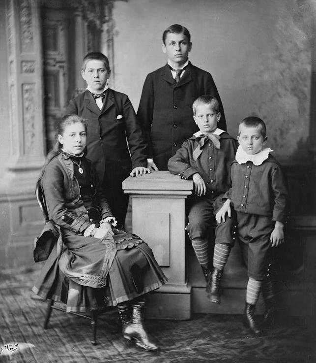 Children of Pres. James A. Garfield